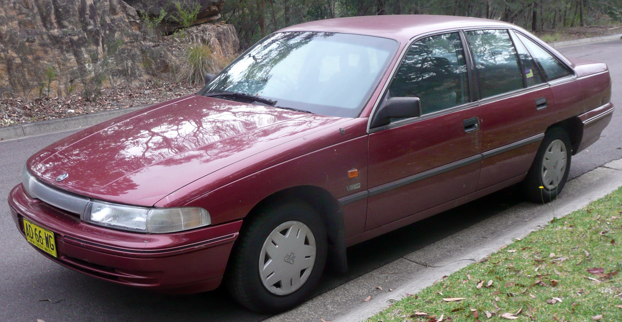 1992 Holden Commodore (VP) Executive sedan. Photographed in New South Wales, Australia.